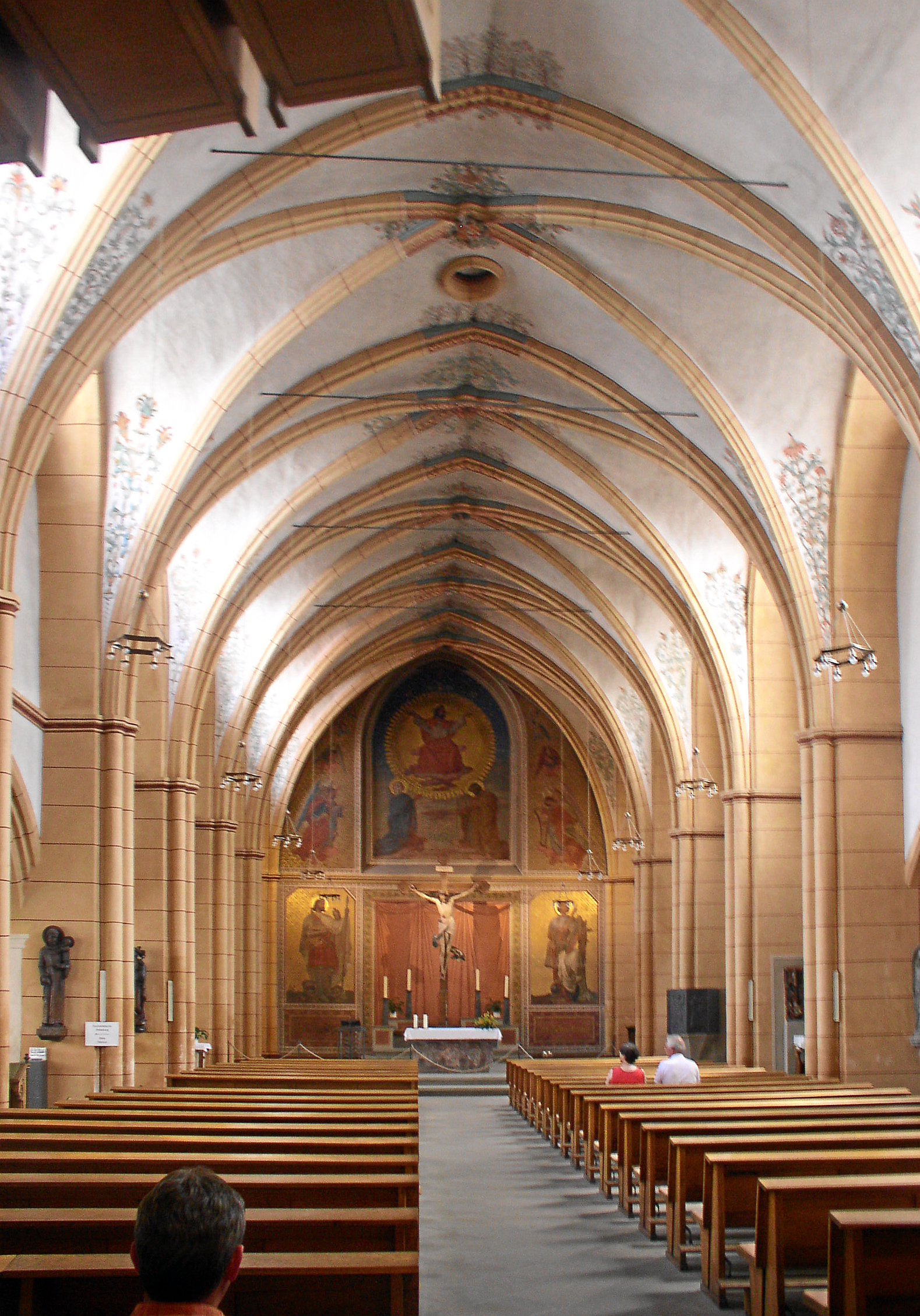 Interior of the St. Gangolf church in the centre of Trier